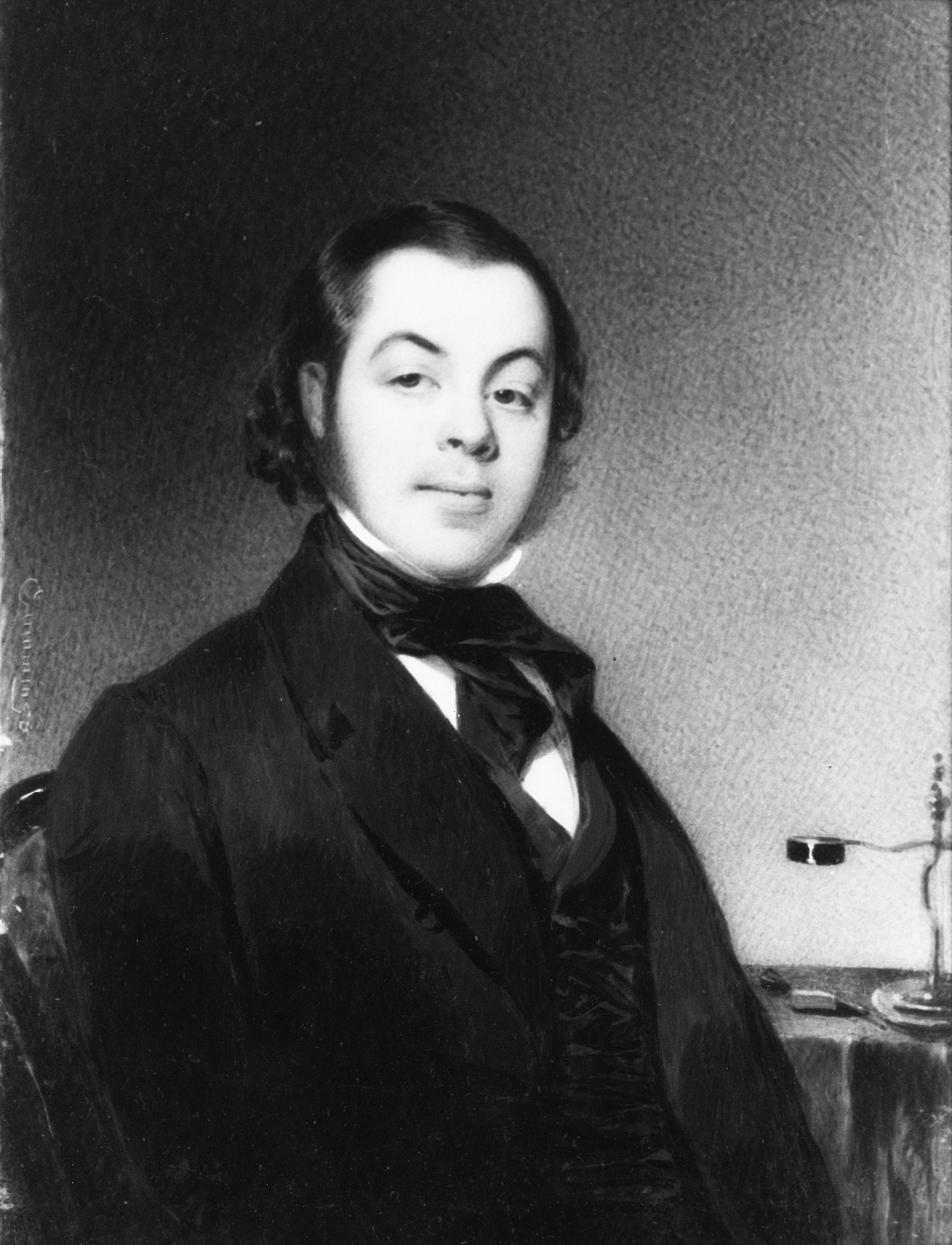 Benson John Lossing Artist: Thomas Seir Cummings (American (born England), Bath 1804–1894 Hackensack, New Jersey) Date: ca. 1835 Medium: Watercolor on ivory Dimensions: 3 27/32 x 2 23/32 in. (9.8 x 6.9 cm) Classification: Paintings Credit Line: Rogers Fund, 1965